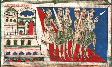 Charlemagne and the Knights on their way to Compostela. Miniature from the Codex Calixtinus, 12th century. Archive-Library of the Cathedral of Santiago de Compostela, Spain